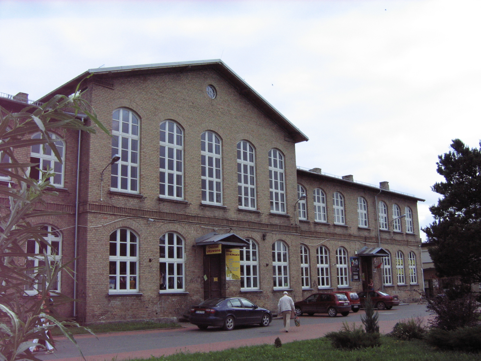 Municipal cultural center